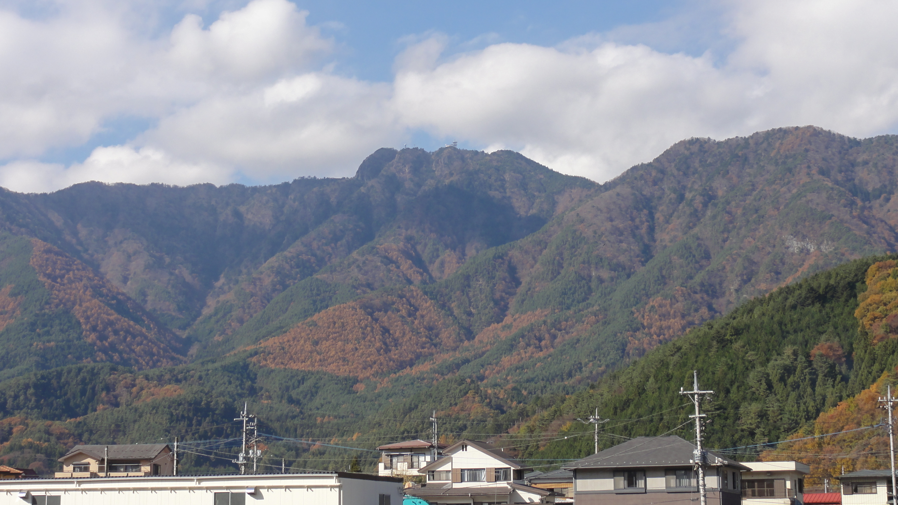 Mount Mitsutouge in Yamanashi Pref., Japan